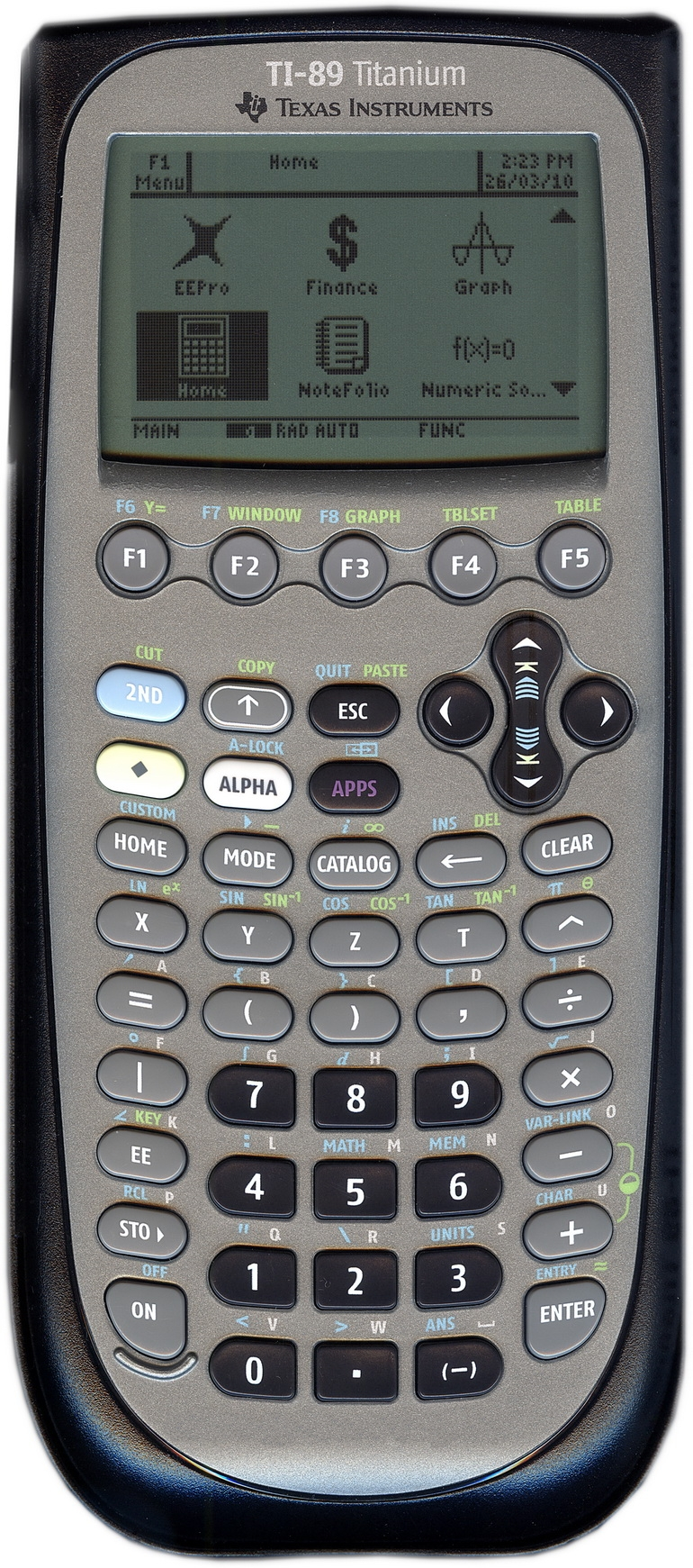 Texas Intruments TI-89 Titanium graphing calculator with Computer Algebra System (CAS)